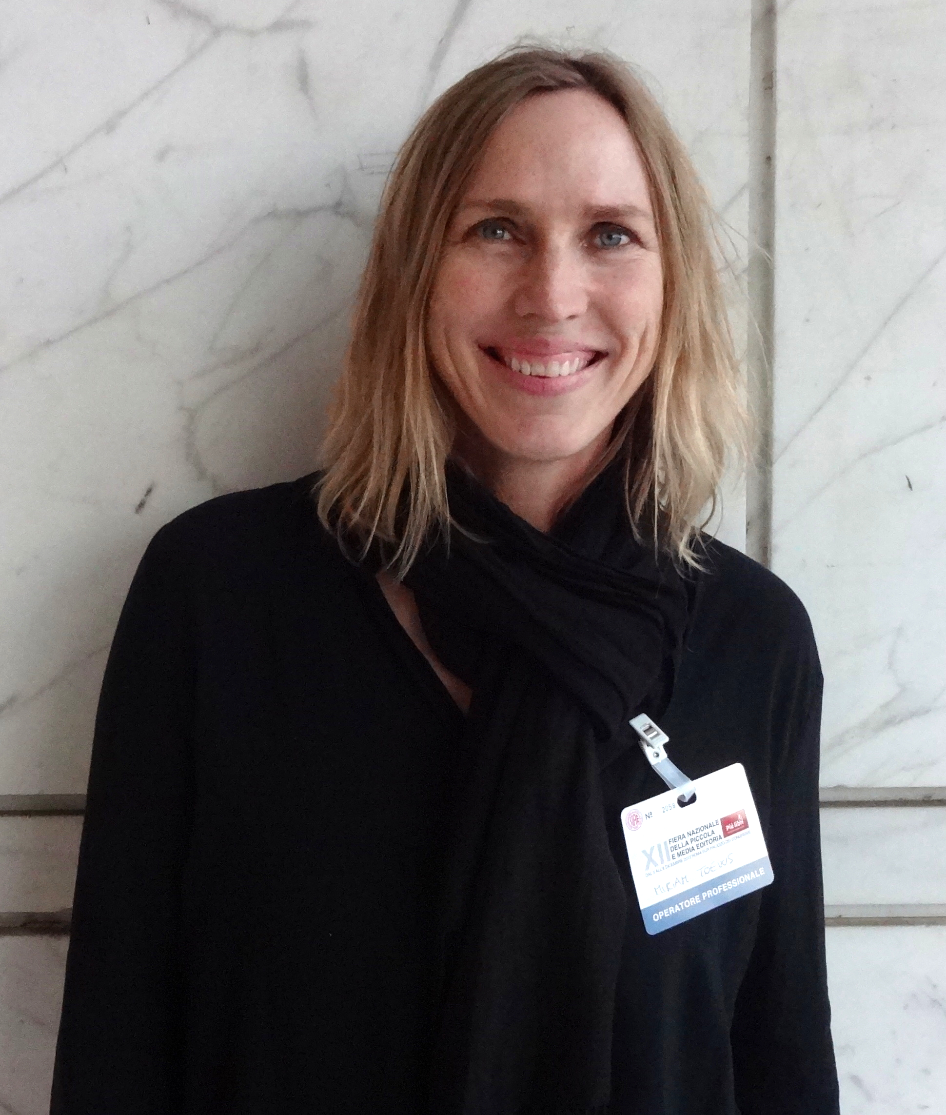 Miriam Toews at Più libri più liberi literary festival in Rome.